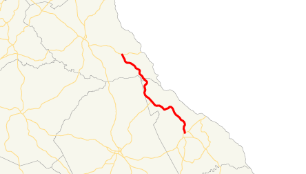 Map of Georgia State Route 79